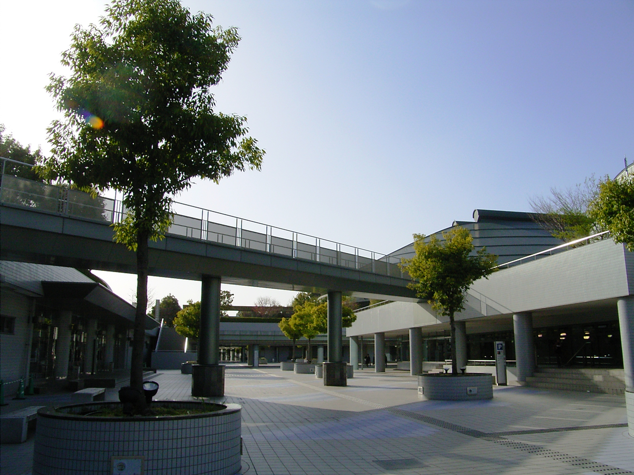 Hiroshima Prefectural Sports Center(広島県立総合体育館、Hiroshima Green Arena